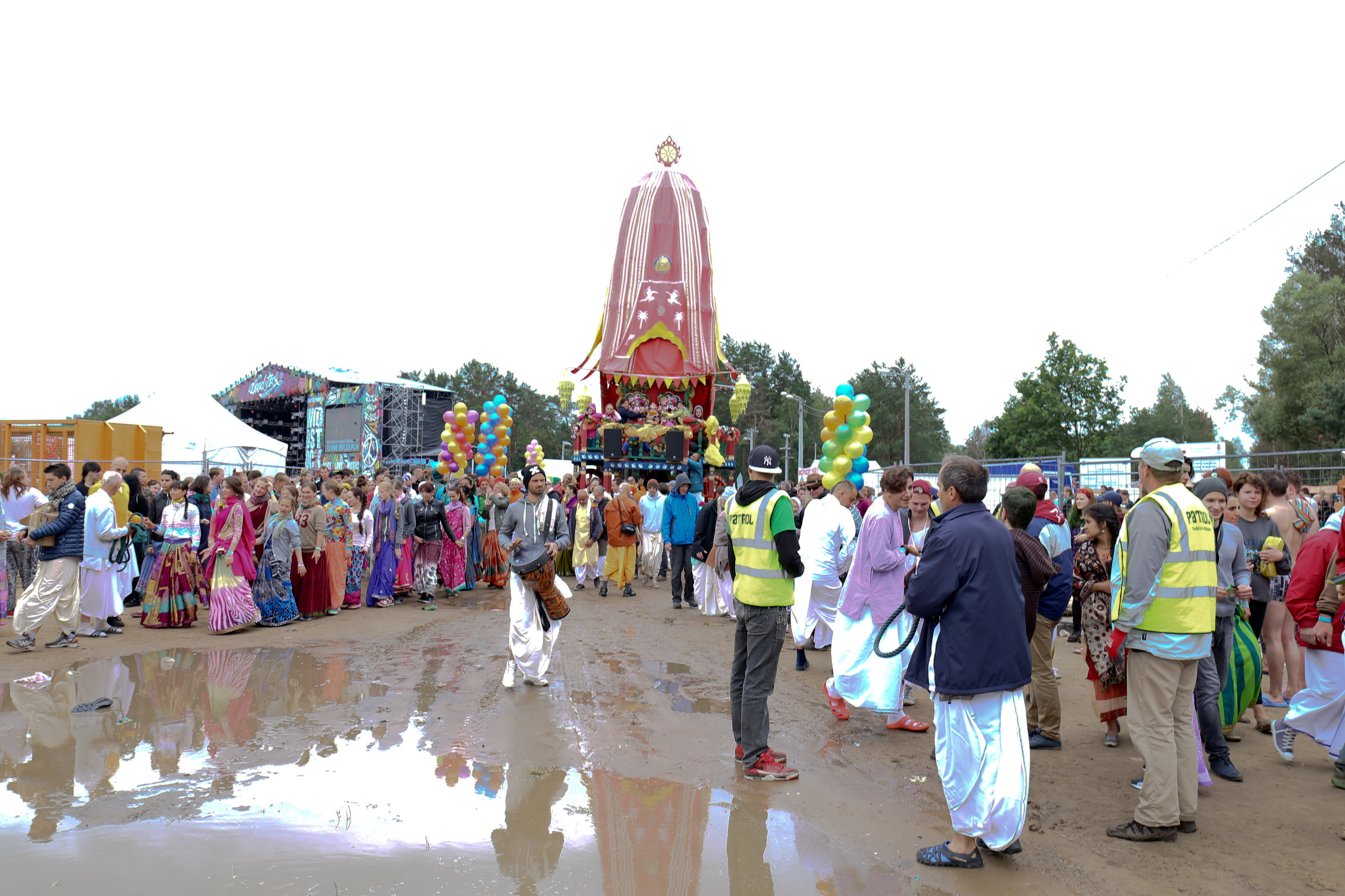 Przystanek Woodstock in 2016.